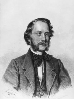 Joseph Unger